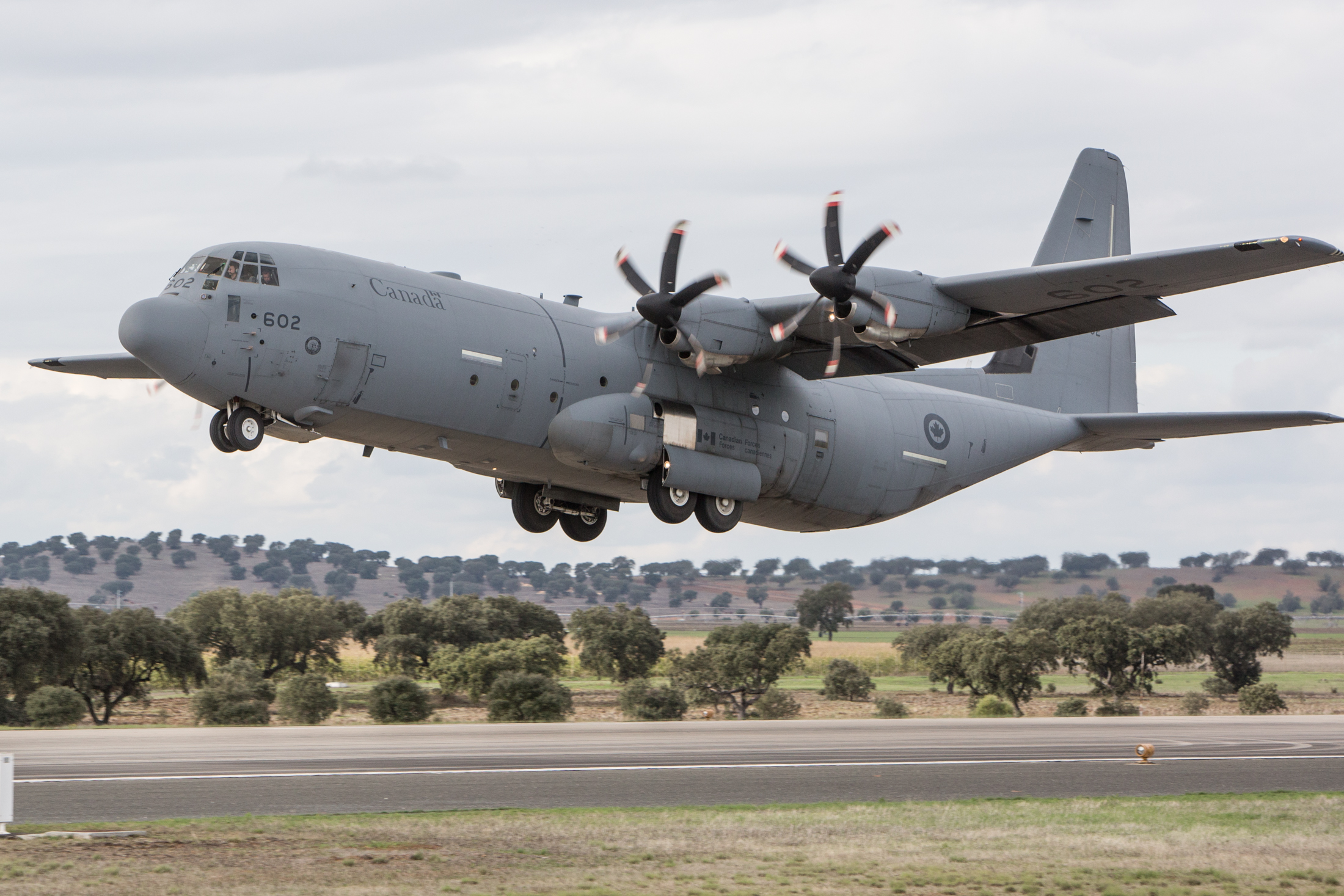 A canadian C-130J taking off at Beja Air Base, Portugal for Exercise Trident Juncture. Photo: OR-7 Christian Timmig, NIMC TRJE15, Beja